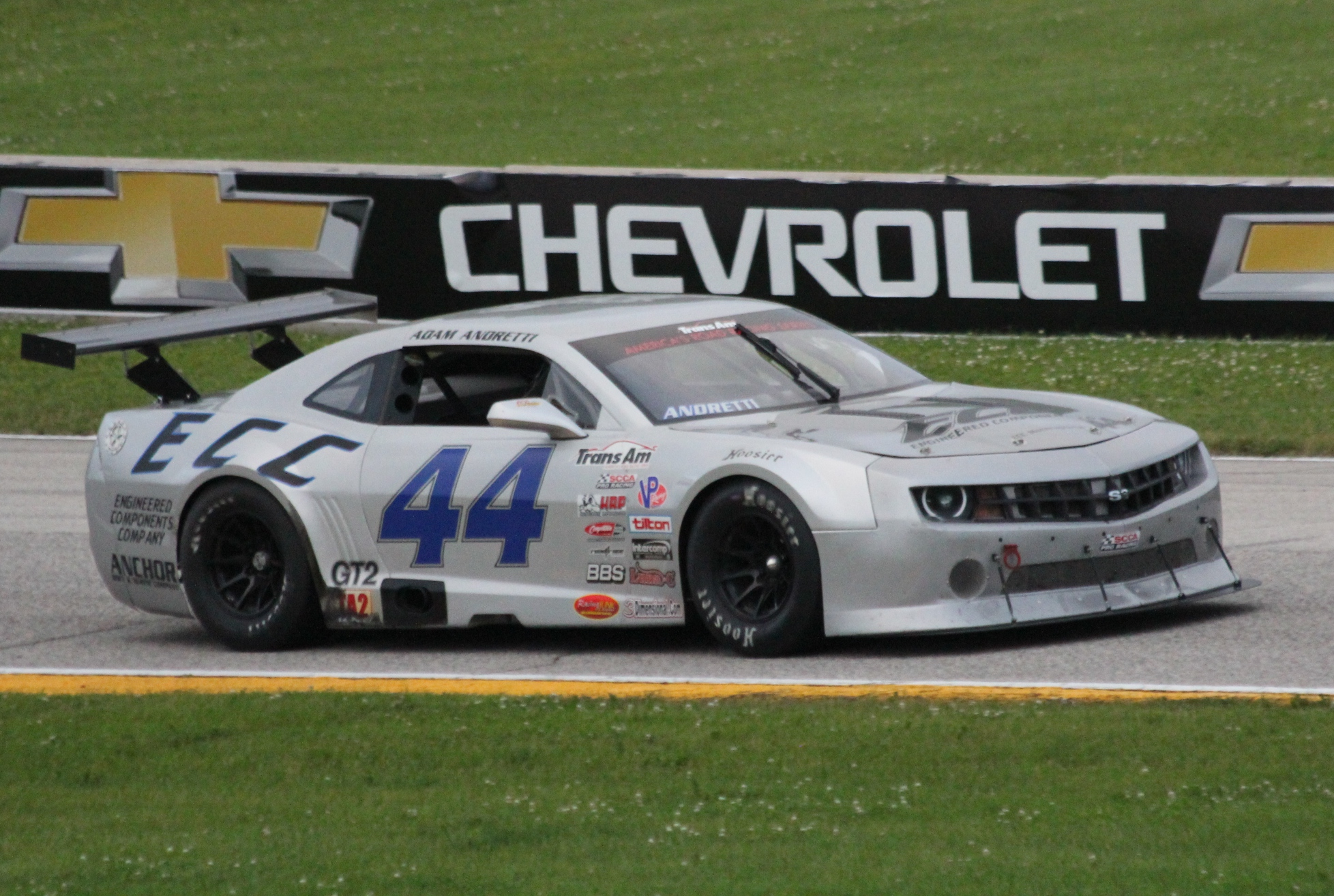 Adam Andretti racing for his second place finish in the TA2 class during SCCA Trans-Am Race at Road America.